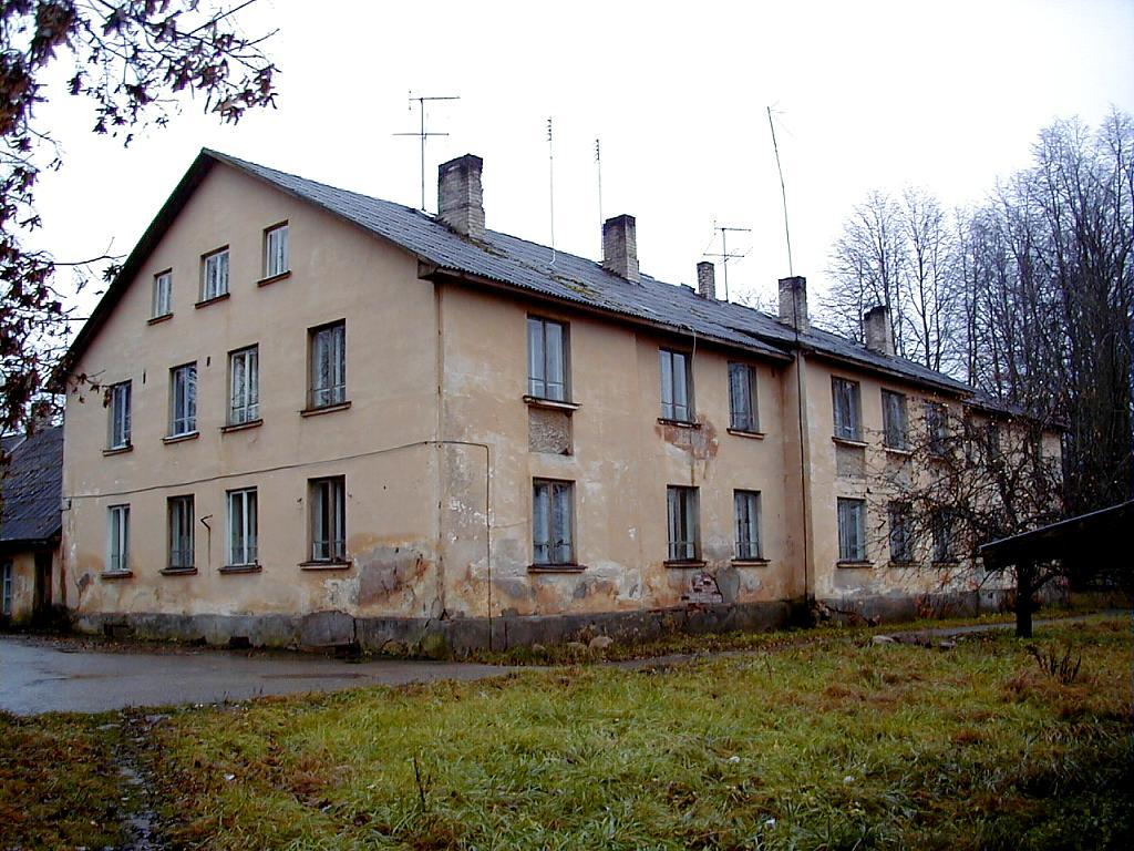 Ārlava Manor, Latvia